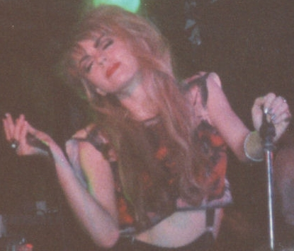 Danielle Dax at the Riverside, Newcastle